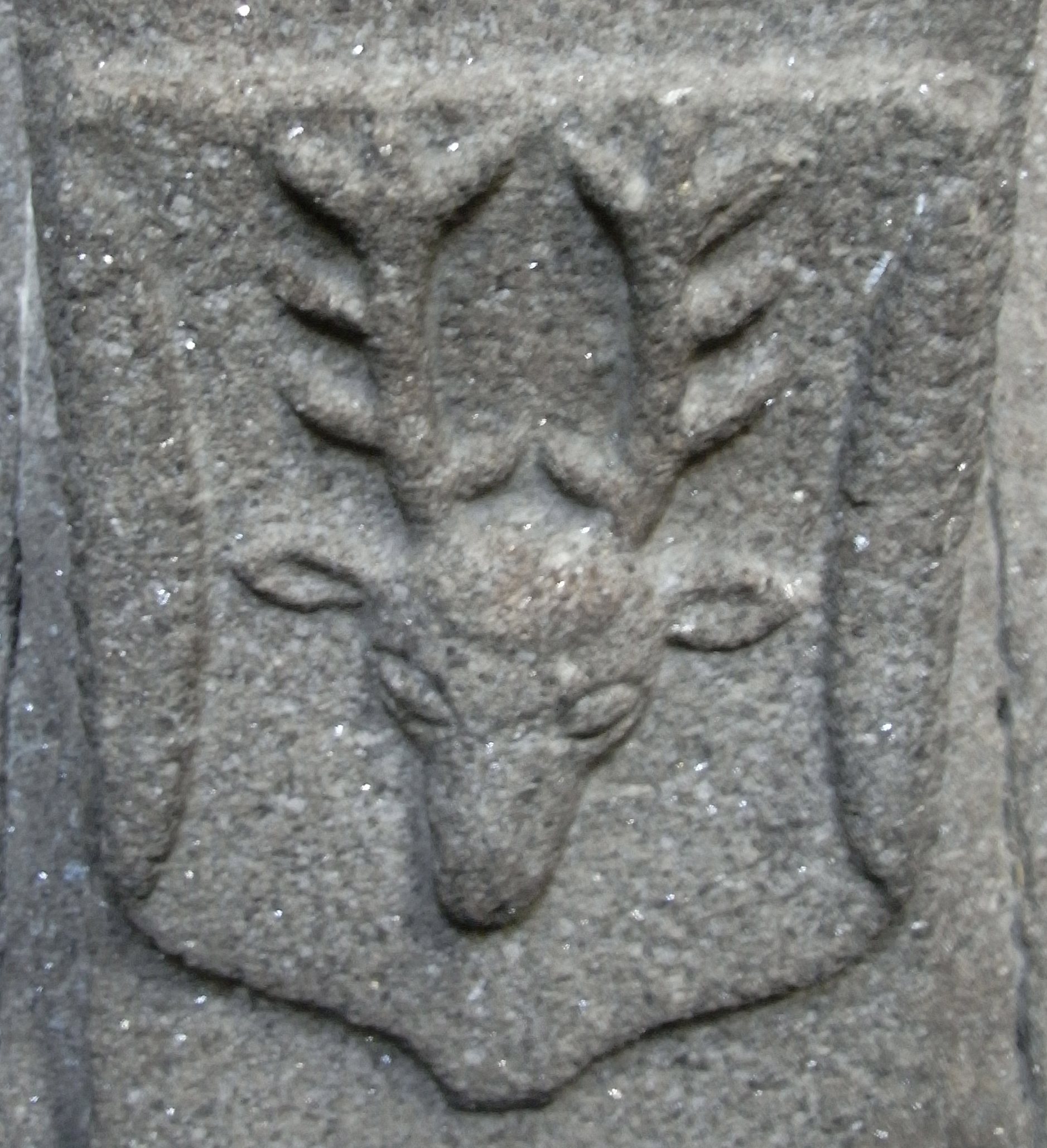 Boringdon Hall, Plympton, Devon. Detail from granite chimney-piece in Great Hall showing escutcheon with Parker arms: Sable, a stag's head cabossed between two flaunches argent (sometimes given as a buck's head, as shown on south pediment of Saltram House; the form of a stag's antlers can be seen in a more ancient version on the 1609 oak panelling in North Molton Church